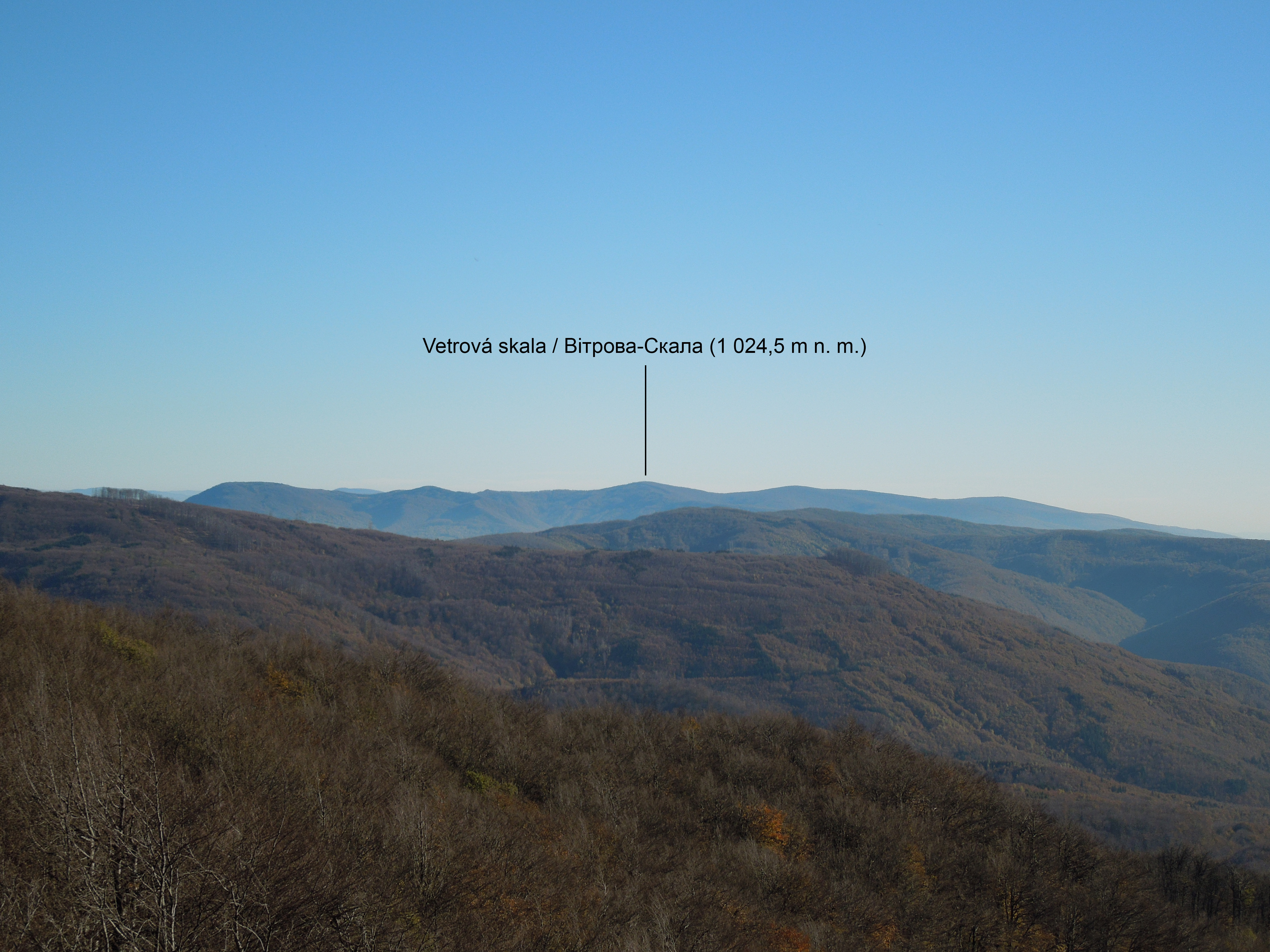 View of peak Vetrová skala from peak Sninský kameň This is a photography of Natura 2000 protected area with ID SKUEV0209